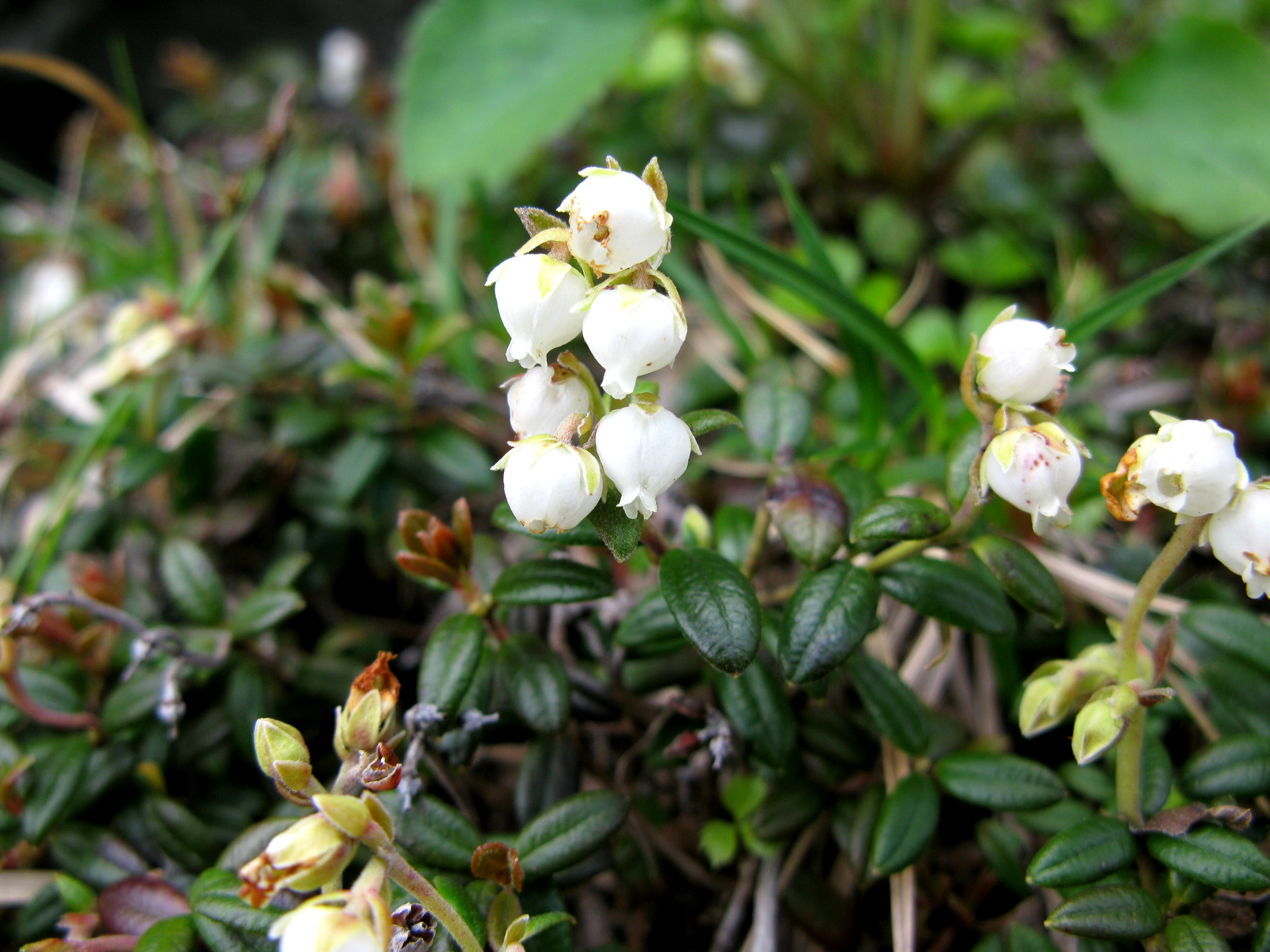 Pieris nana (Arcterica nana), Mt. Nishiazuma-yama, Fukushima pref., Japan